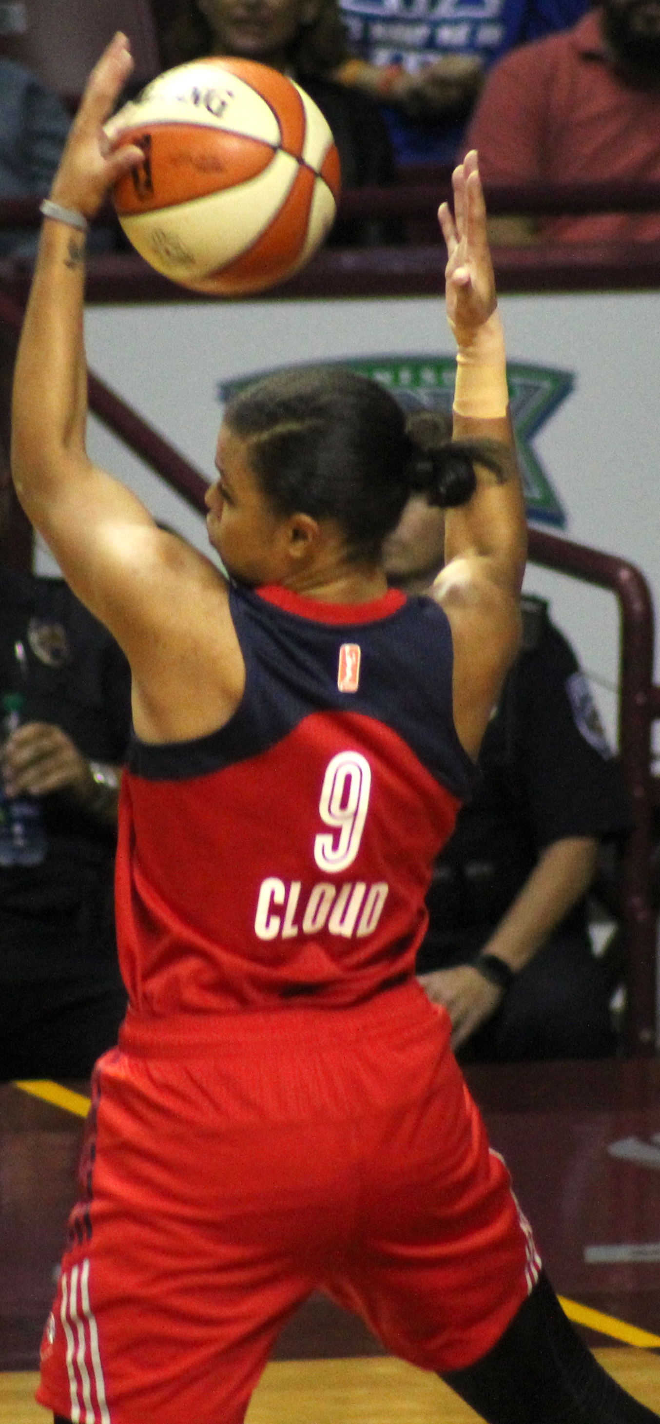 Natasha Cloud of the Washington Mystics